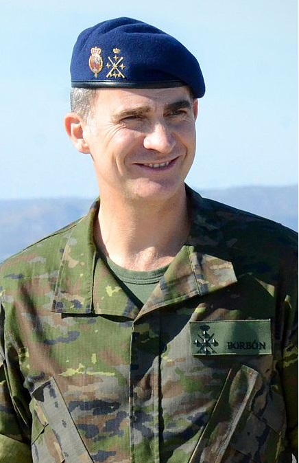 A portrait of His Majesty the King Felipe VI on 30 october during Trident Juncture 2015 NATO photo by Karl Schoen